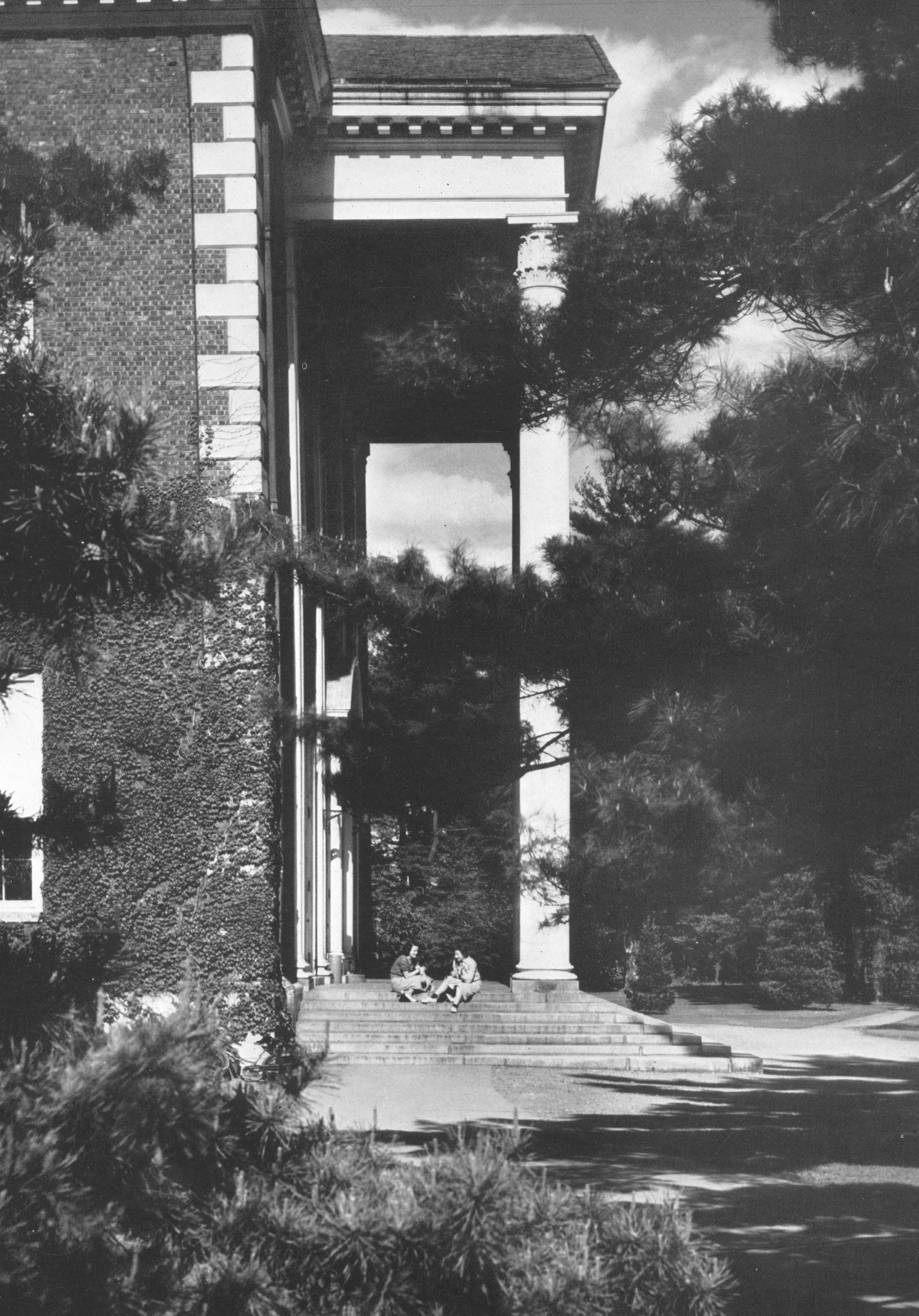 The Students' Building at Vassar College in 1939 or 1940.